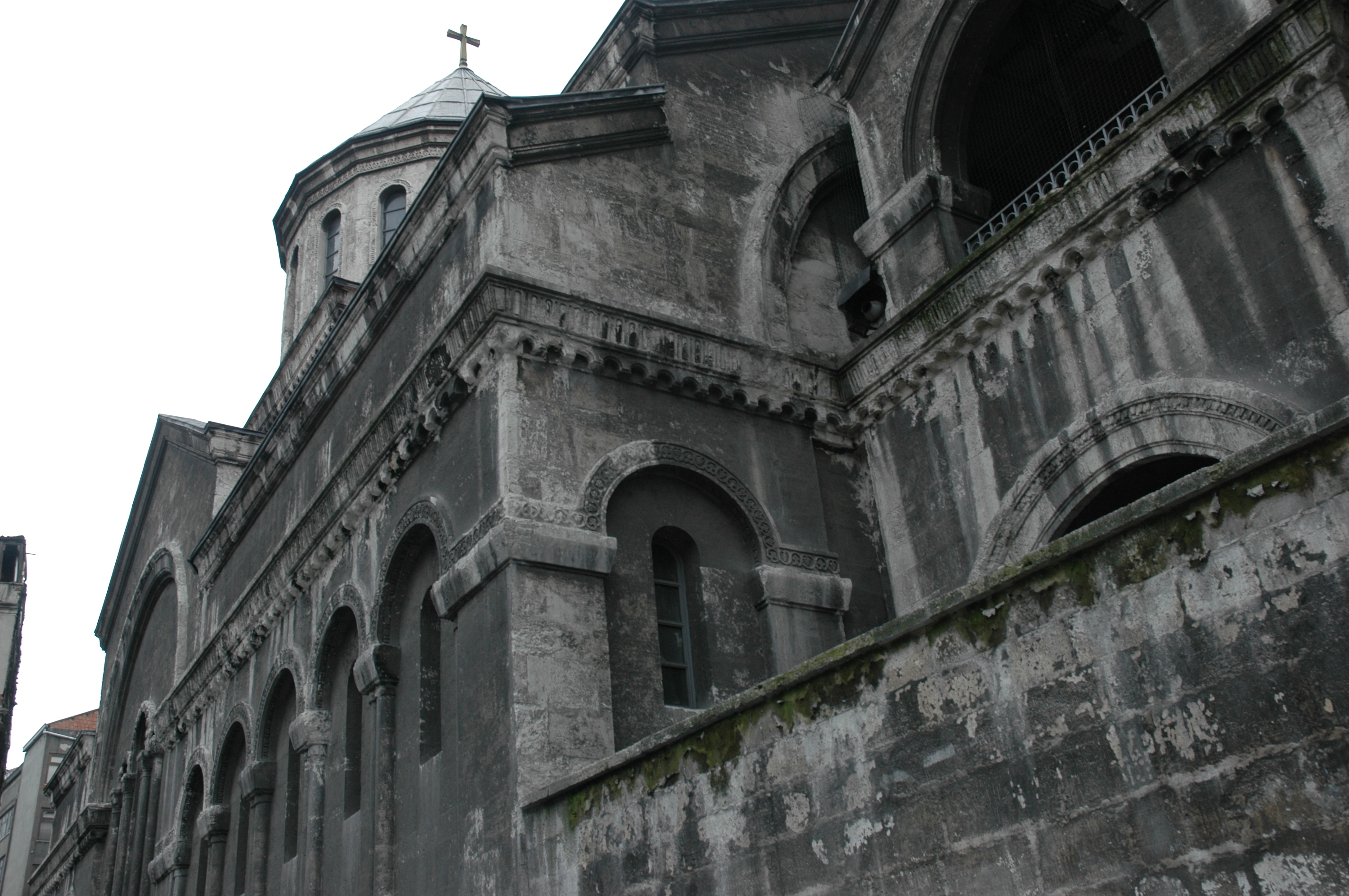 Taken along the side to show the dome and general structure. Also called Surp Krikor Lusavoriç Ermeni Kilisesi.